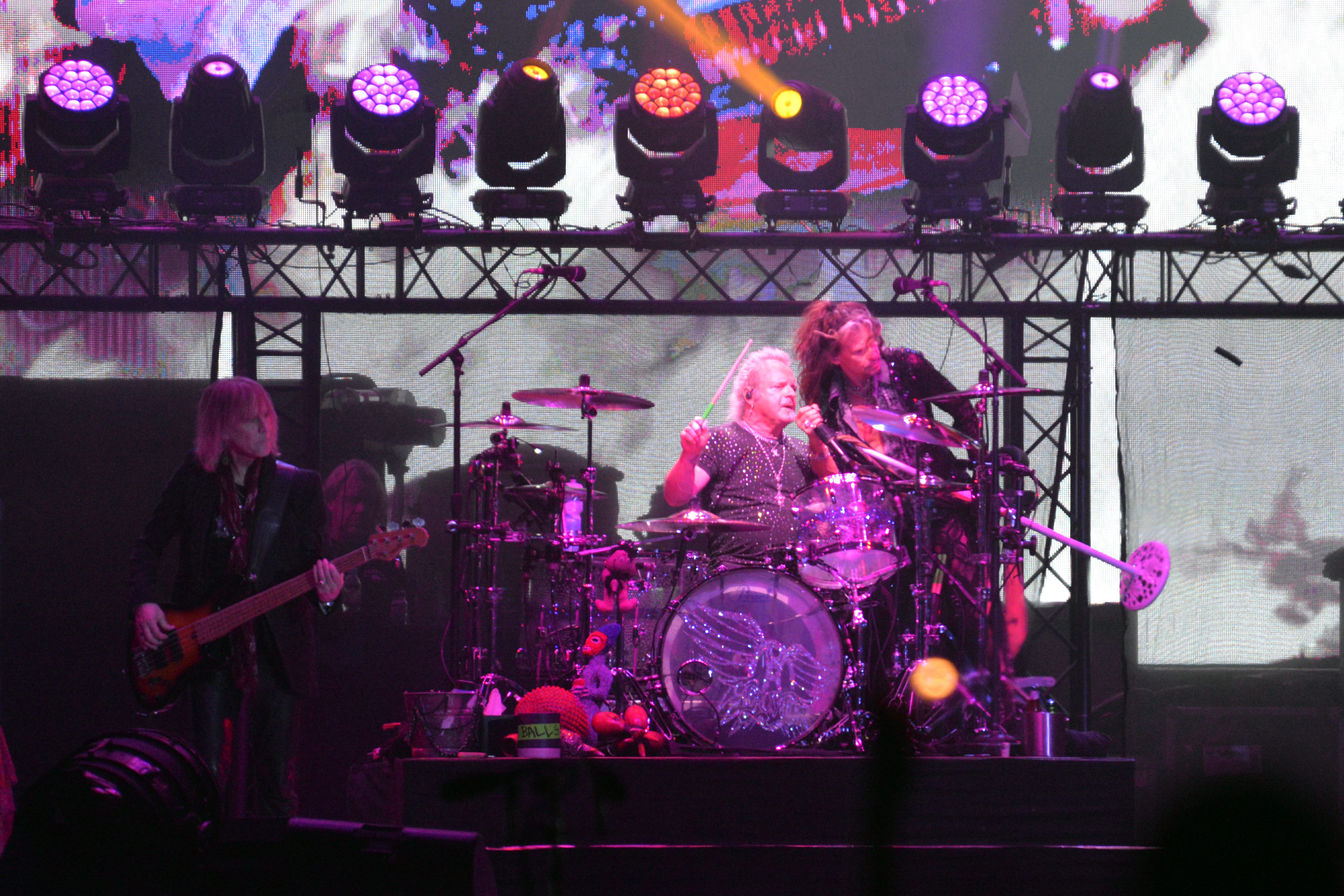 Aerosmith show at 2017 Hellfest, France.